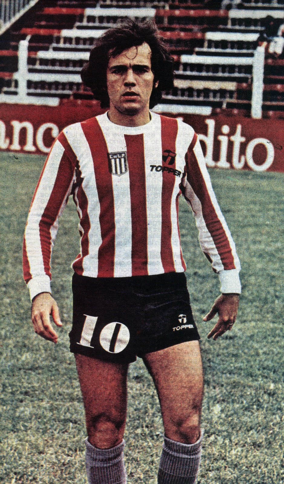 Footballer Alejandro Sabella during his tenure on Estudiantes de La Plata.